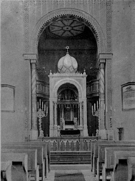 Synagogue in Bolesławiec inside